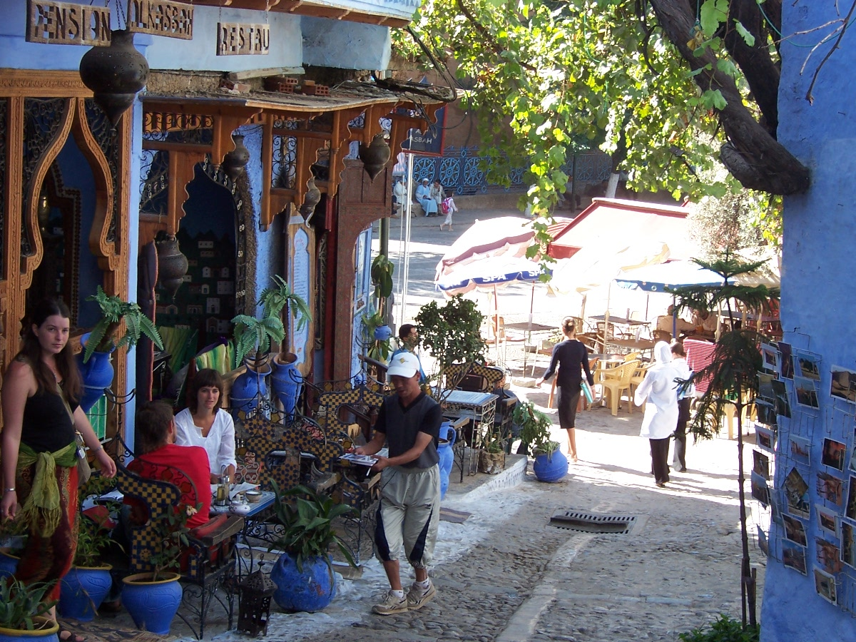 Shops in Chefchaouen in Morocco